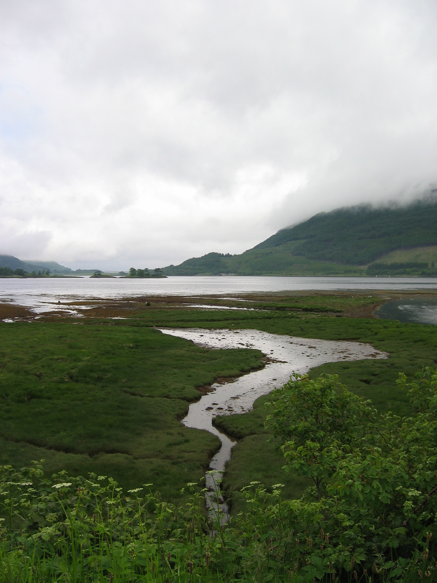 Glencoe, Highlands, Scotland